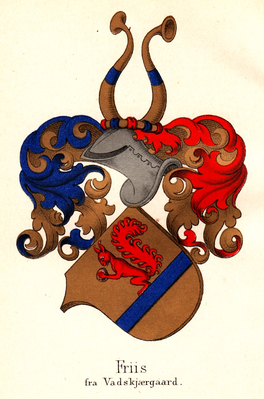 Coat of arms of the Friis of Vadskærgård family